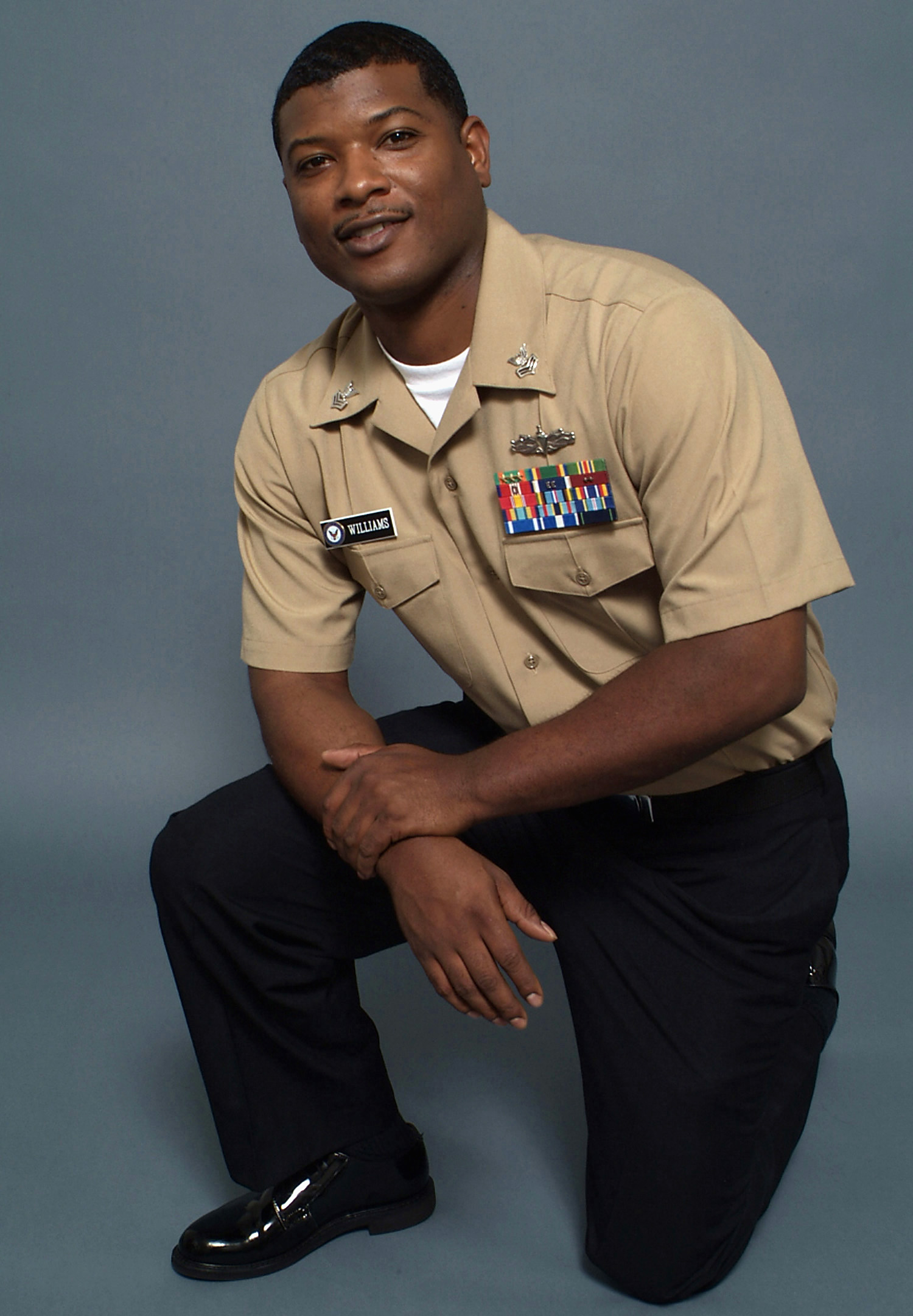 WASHINGTON. Personnel Specialist 1st Class Howard Williams models the new E-6 and below Service Uniform. The uniform is for year-round wear and replaces summer white and winter blue uniforms and will be available as follows: July, Great Lakes and California; Oct., Northwest and Hawaii; Jan. 2009, Gulf Region and Millington, Tenn.; April 2009, Naval District Washington; July 2009, Tidewater; Oct 2009 Southeast; Jan. 2010, Northeast; April 2010, Europe, Japan and Guam.